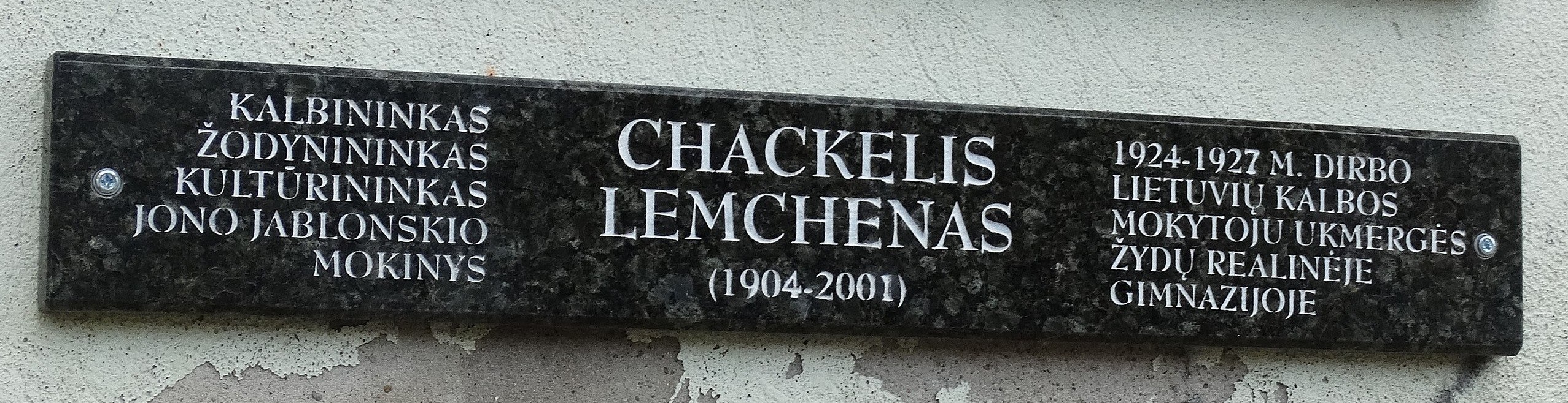 Memorial plaque, Chackelis Lemchenas, Ukmergė, Lithuania